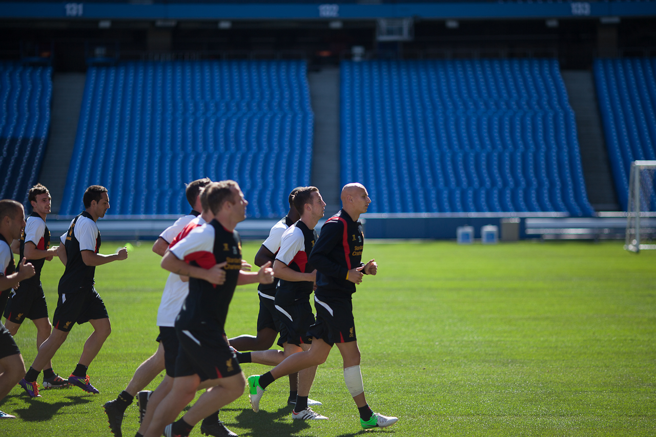 Liverpool FC players jogging during Liverpool training session in Toronto, 21-07-2012.